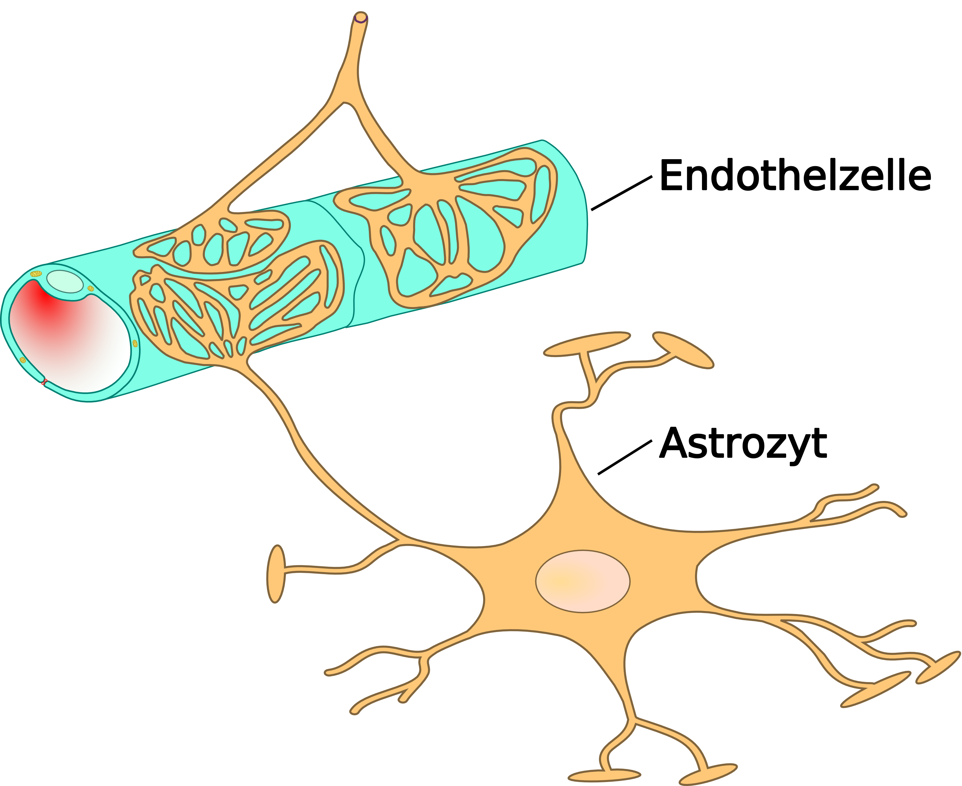 Schematic sketch showing endothelial-astrocyte interaction in the blood-brain barrier.